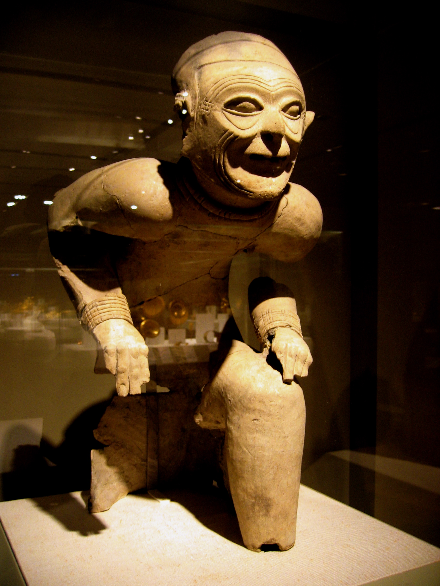 Seated figure, 1st century B.C.–1st century A.D. Ecuador; Tolita/Tumaco Ceramic; H. 25 in. (63.5 cm) Gift of Gertrud A. Mellon, 1982 (1982.231) The largest and most expressive ceramic sculptures from ancient South America come from the Pacific coast of Colombia-Ecuador, where their style is named Tumaco and La Tolita respectively. This hunched figure with a wrinkled face is a particularly striking example of a known type. The lines of schematized wrinkles emphasize the shape of the chin, prominent cheekbones, and baggy eyes. The head, wearing a tight-fitting cap or closely cropped hair, displays the long, sloping forehead and bulbous back indicative of the cranial deformation practiced during ancient times that was considered a sign of distinction. The figure wears multistrand bracelets and a necklace representing ornaments made of valued materials such as semi-precious stones, shell, and for the very wealthy even gold. Holes in the septum of the nose and along the rims of the ears originally held ornaments as well. They must have created a pleasing contrast to the pale color and unpolished surface of the sculpture. The figure's use in ancient times is unclear. Since much of it is lost, the reconstruction of the lower part is tentative.